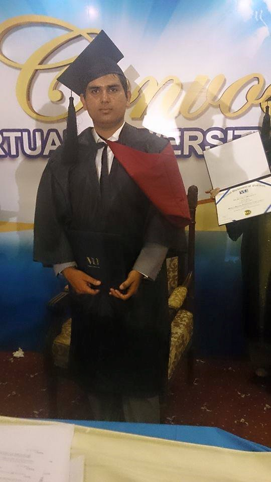 He is a very hardworking and honest teacher.